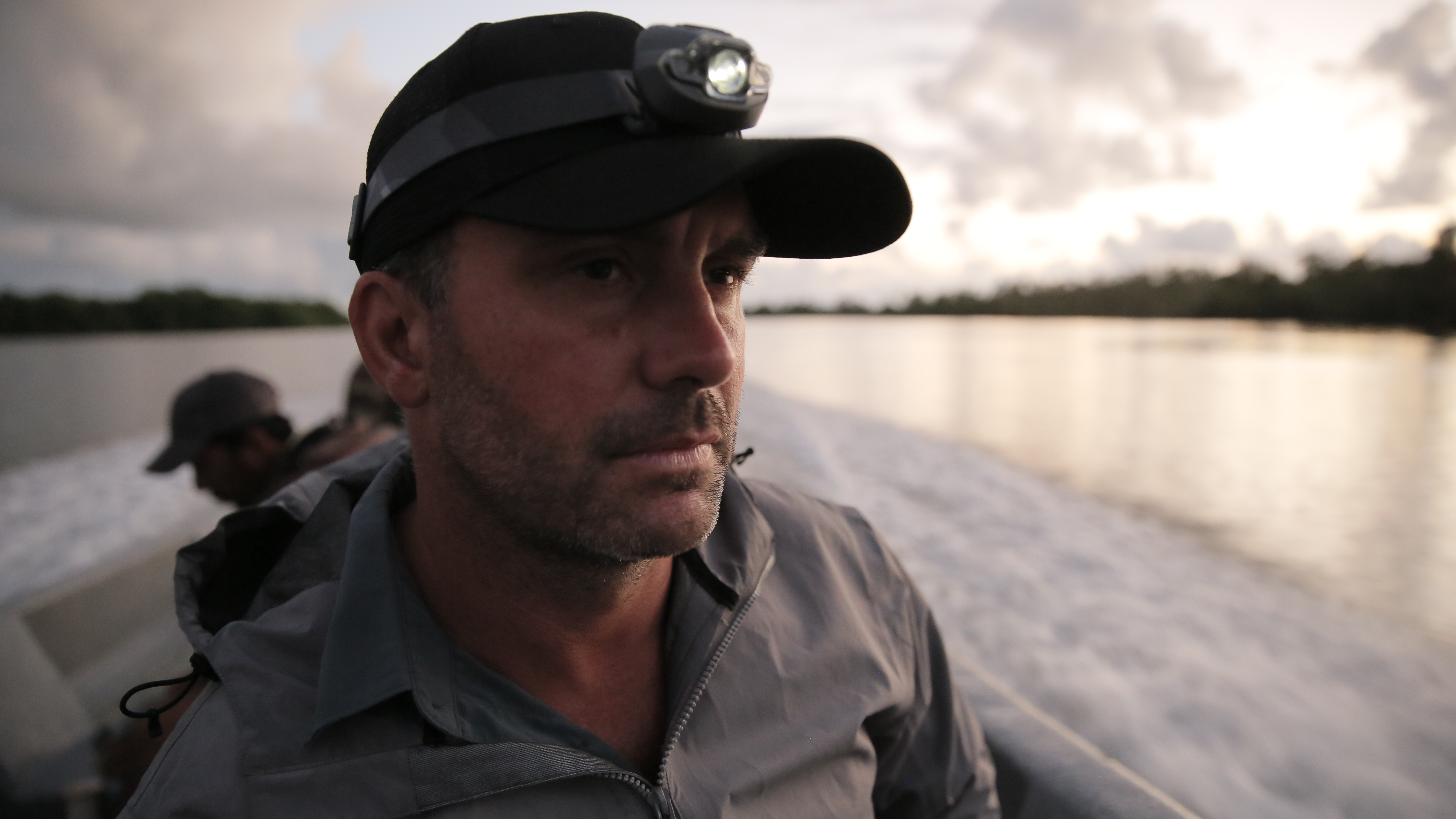 Cyril Chauquet on a jungle river of Nicaragua.